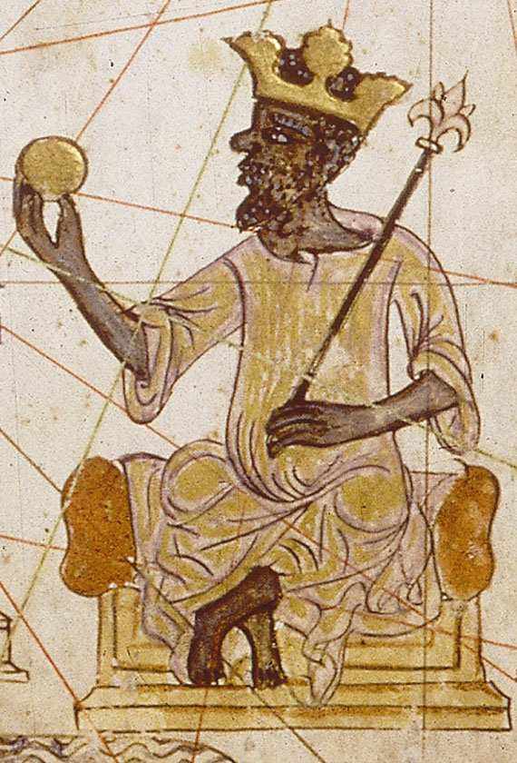 Image of an Saracen king of West Africa, believed to be Mansa Musa, Emperor of Mali. From the Catalan Atlas of 1375, composed by cartographer Abraham Cresques of Majorca.